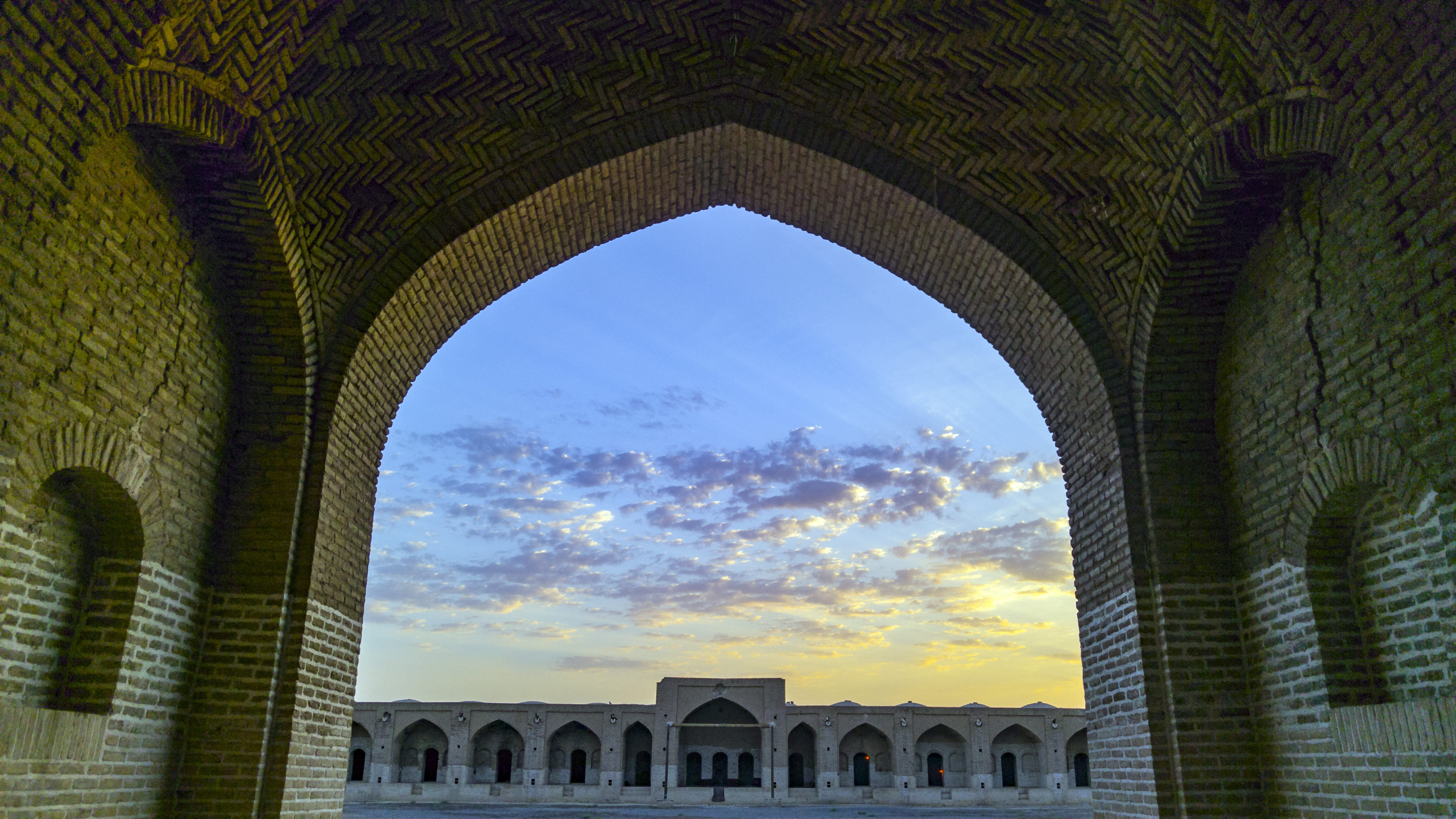 Deir-e Gachin Caravansarai is one of the greatest caravansarais of Iran which is located in the center of Kavir National Park. Its unique qualities is the reason it is called “Mother of Iranian Caravansarais”.